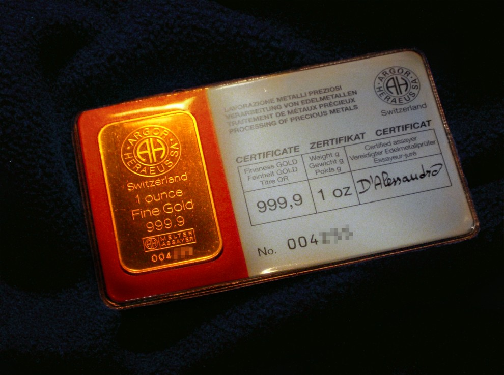 1 oz (Troy ounce) of fine gold